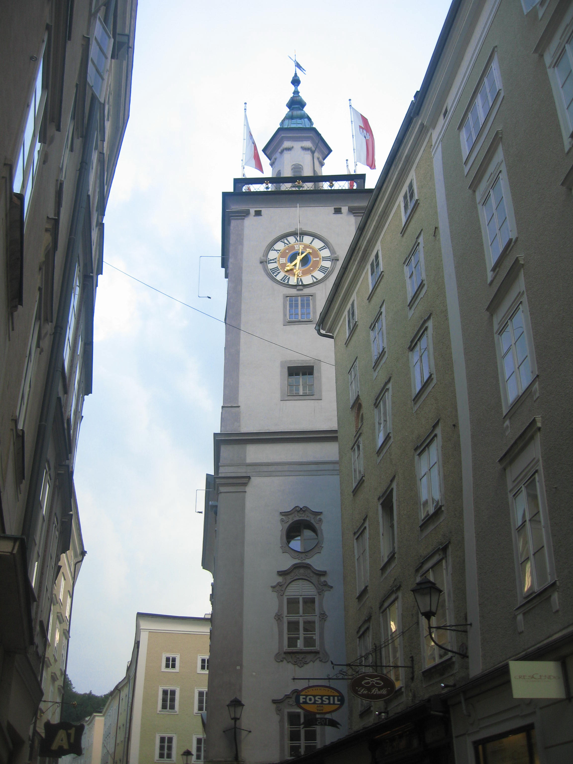 Salzburger Rathaus